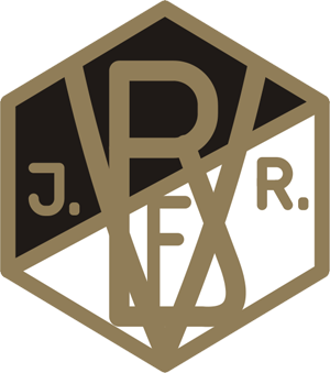 Historical logo of VfB Ingolstadt-Ringsee, German football team